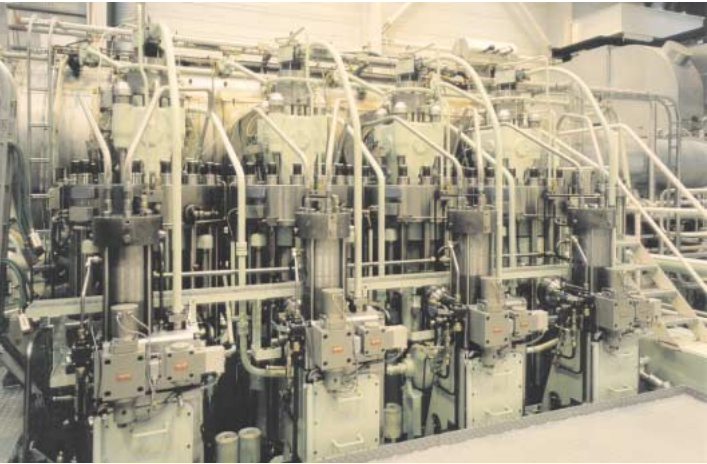 MAN diesel